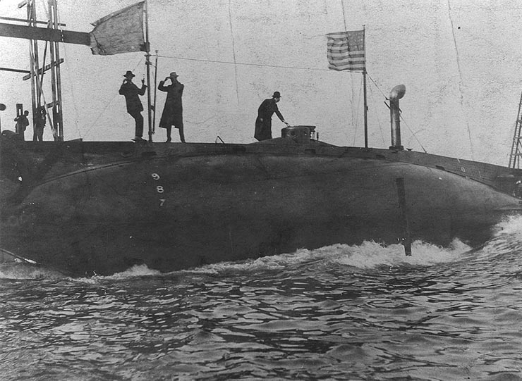 USS Pike (Submarine # 6) launching, at the Union Iron Works, San Francisco, California, on 14 January 1903. Original caption: “Photo # NH 58251 Launching of USS Pike, at San Francisco, California, on 14 January 1903.” — removed caption